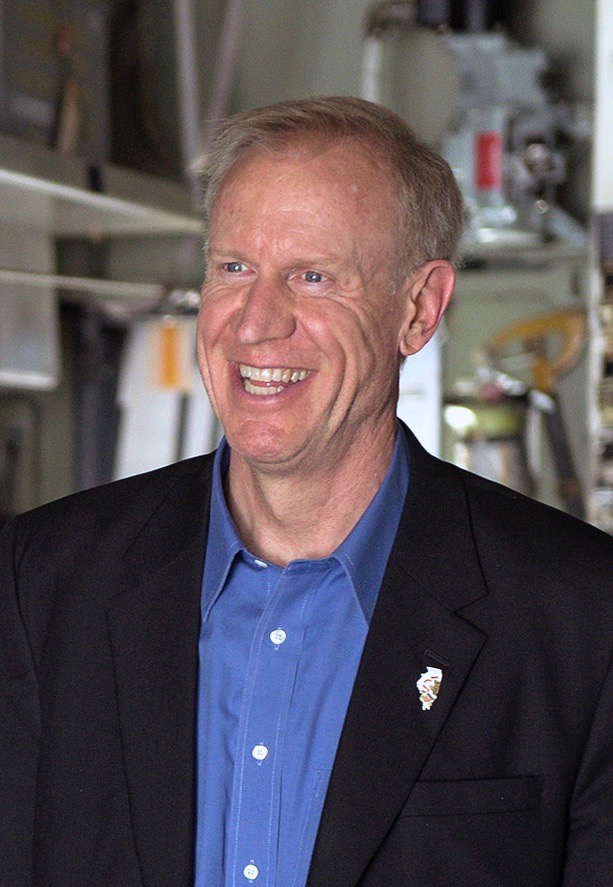 Bruce V. Rauner, right, governor of the state of Illinois, speaks with 182nd Airlift Wing Commander Col. William Robertson during a tour of a C-130 Hercules aircraft at the 182nd Airlift Wing, Illinois Air National Guard, in Peoria, Ill., June 24, 2016. Rauner became the commander in chief of the Illinois National Guard when he took office Jan. 12, 2015. (U.S. Air National Guard photo by Staff Sgt. Lealan Buehrer)